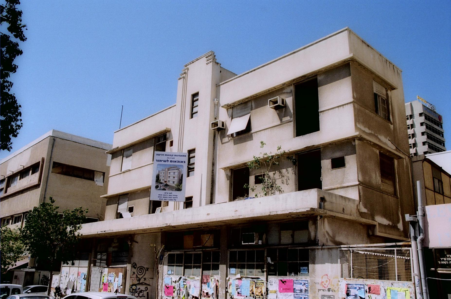 5 Lavontin St., Tel Aviv